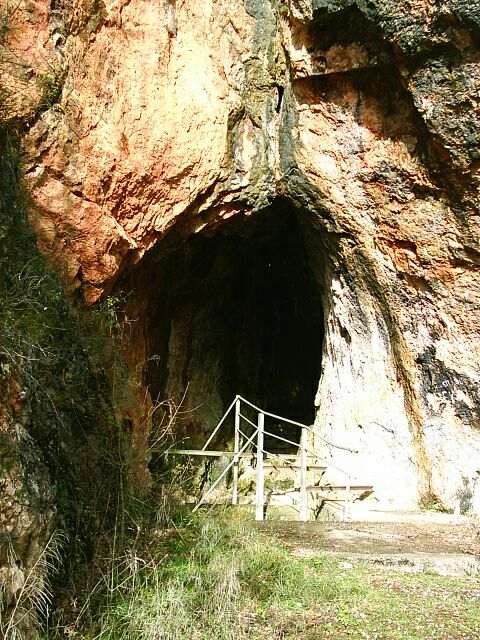 Tito's Cave near Drvar. Place, where the high command of the yugoslav partisans stayed during the WWII, BiH